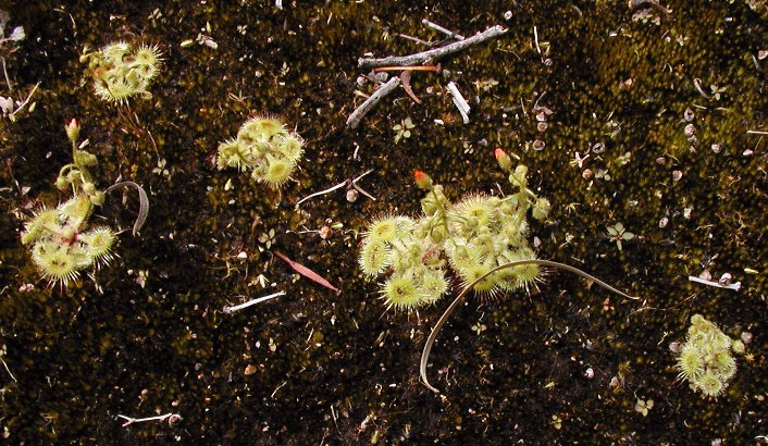 Drosera_sp, near Boranup, most likely Drosera glanduligera Oct 05 Photo Cas Liber